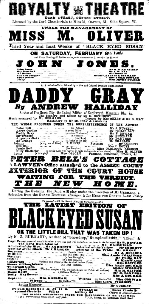 Scanned from original 1868 London theatre bill for the Royalty Theatre's programme including works by Andrew Halliday and F. C. Burnand, presented by Martha Cranmer Oliver